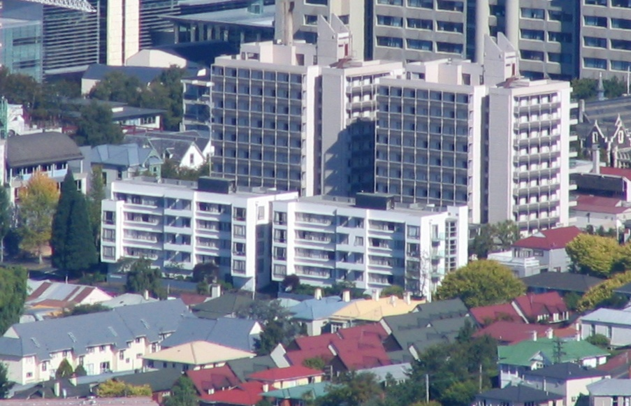 University College, Otago, buildings from Signal Hill, Dunedin, New Zealand. South Tower & North Tower behind South Annexe & North Annexe, north to the right.